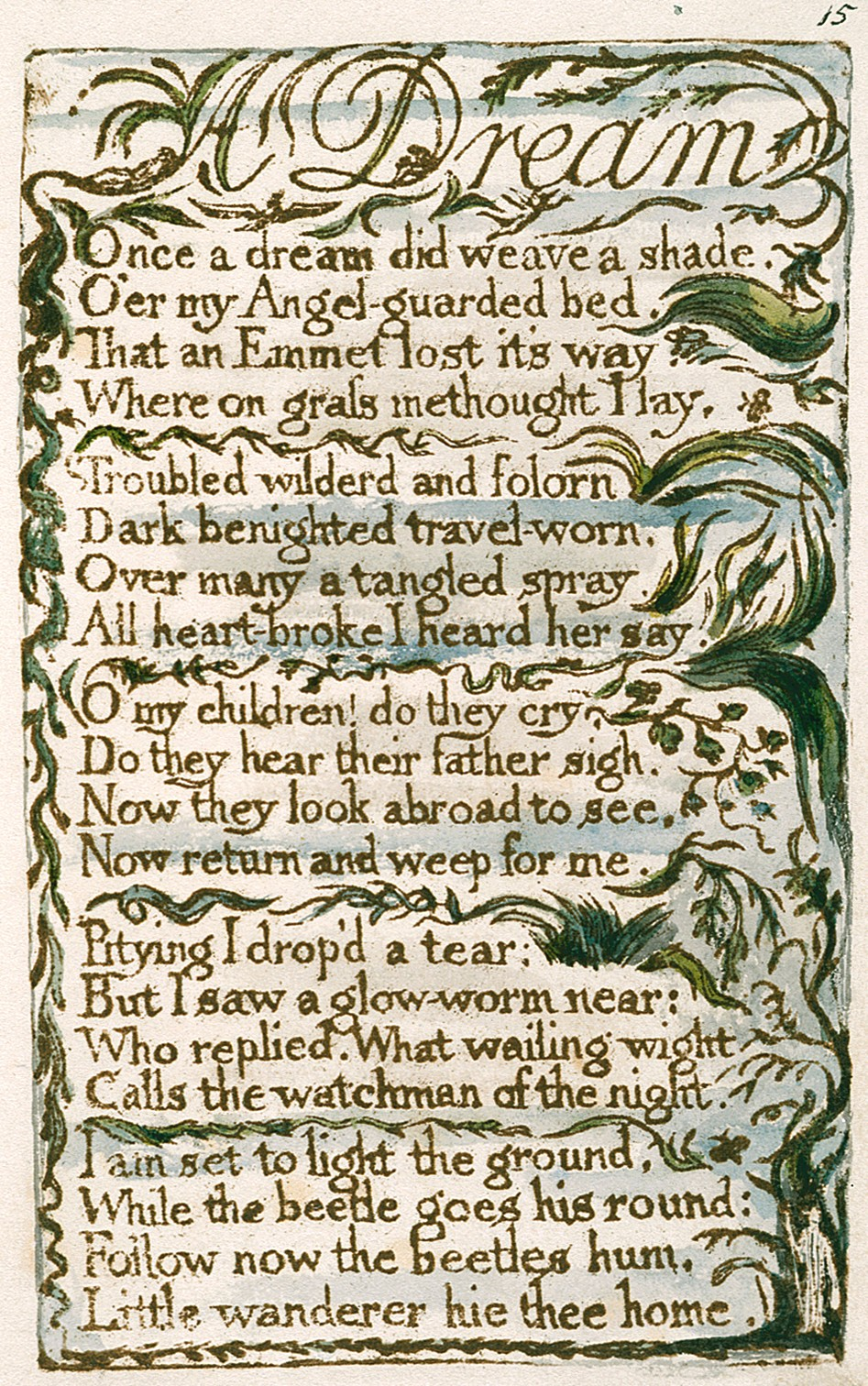 Songs of Innocence and of Experience, copy L, 1795 (Yale Center for British Art) 15-26 A Dream